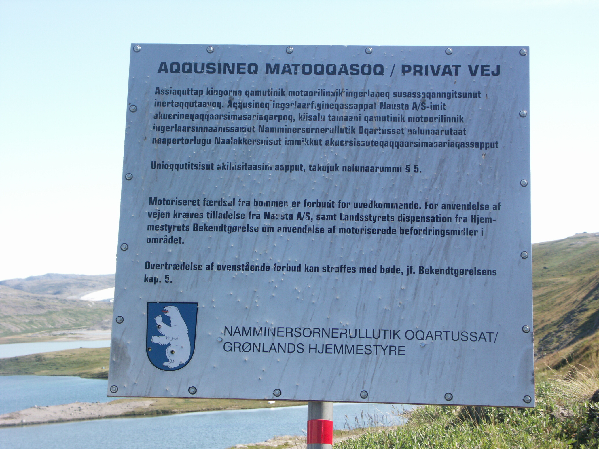 No entry for unauthorised vehicles, a sign in Kalaallisut posted under the authority of Greenland Home Rule, highlands of Isunngua, Greenland. The sign is in Greenlandic and Danish and says, in short: Motorised travel is forbidden for those unauthorised. For usage of the road a permission is needed.